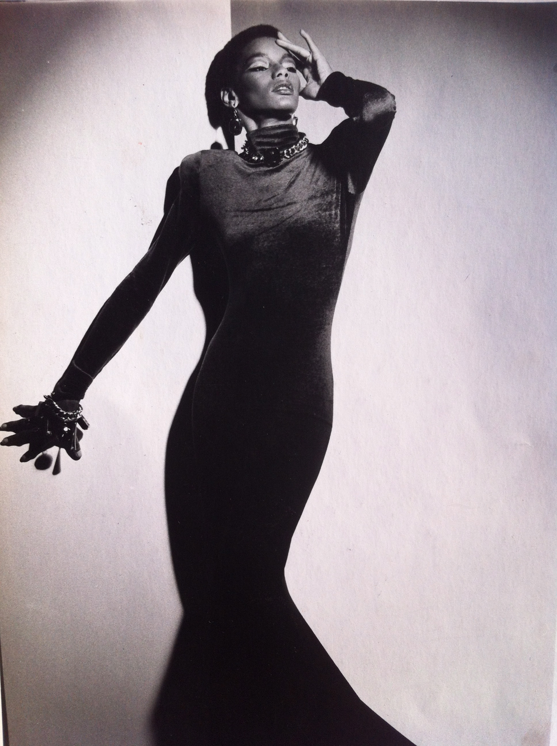 American fashion model Renée Gunter modeling haute couture in Paris in 1981 wearing Thierry Mugler